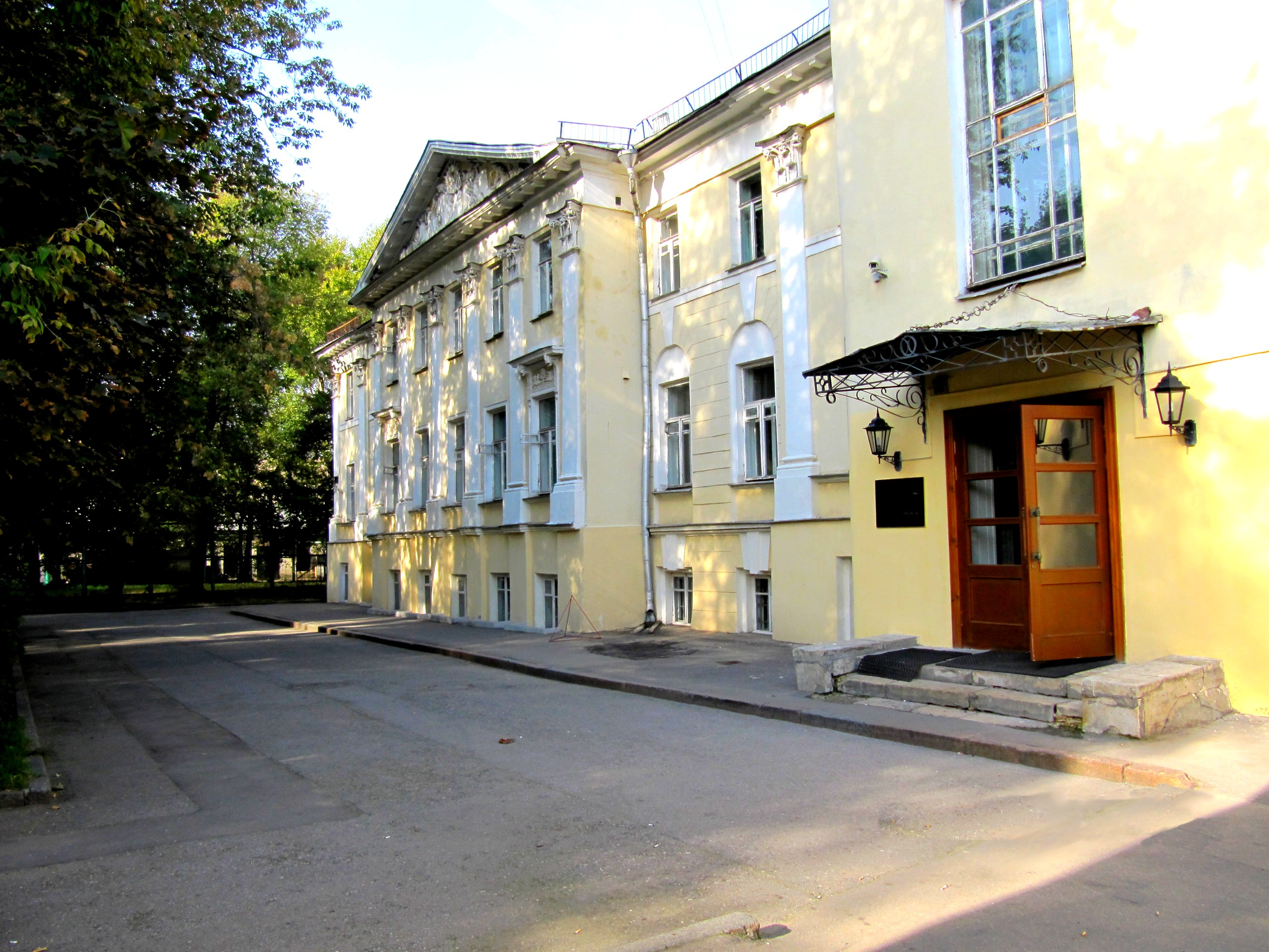 Alexander Herzen's Birthplace. Moscow, Tverskoy blvd, 25.Now Literature Institute named after Maxim Gorky